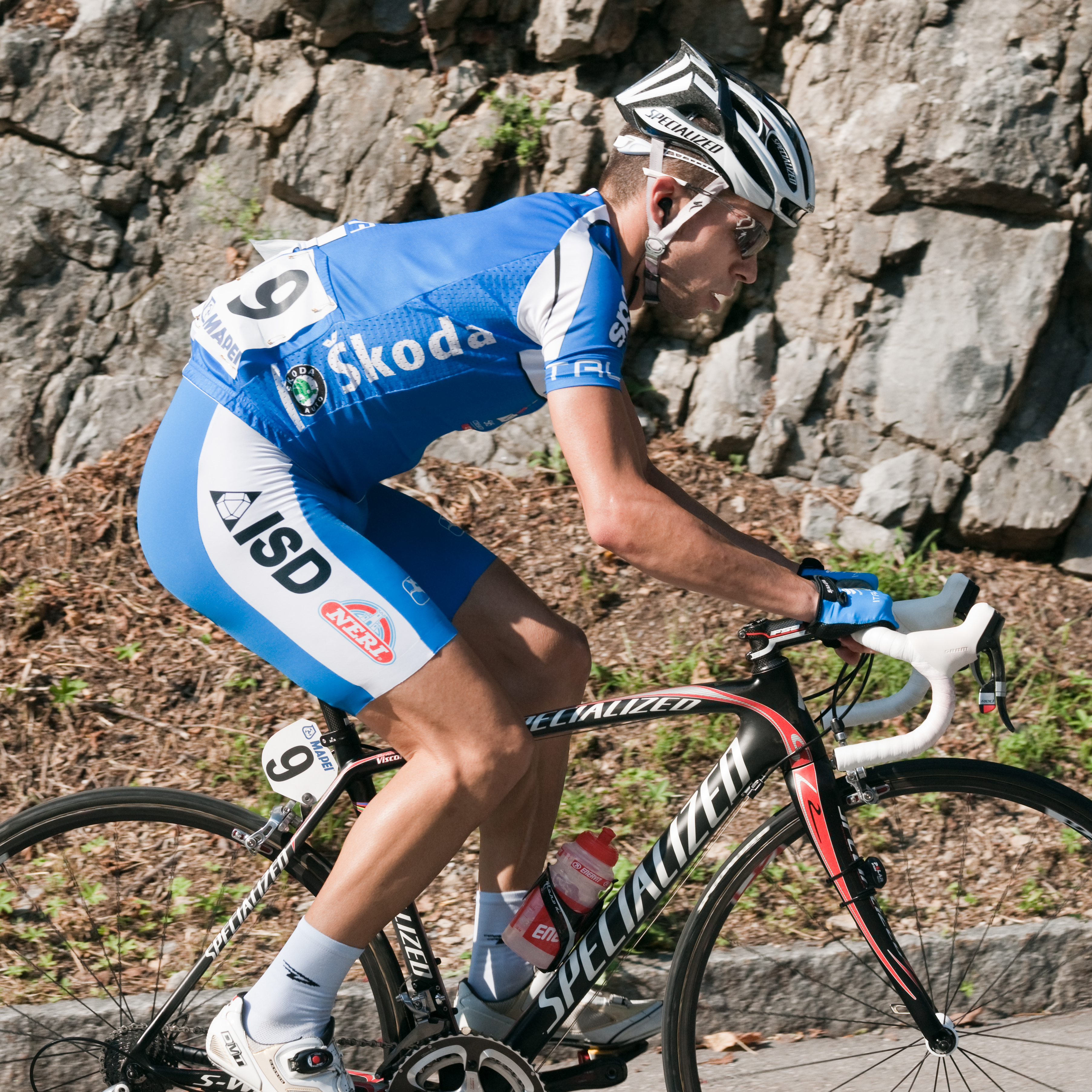 Giovanni Visconti during the 2009 UCI Road World Championships in Mendrisio, Switzerland.